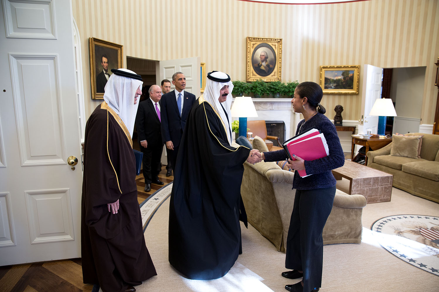 National Security Advisor Susan E. Rice greets Prince Mitib bin Abdallah bin Abd al-Aziz Al Saud, Saudi Arabia's Minister of the National Guard, prior to a meeting with President Barack Obama in the Oval Office, Nov. 19, 2014. At left is Amb. Adel Al-Jubeir, Saudi Ambassador to the U.S. (Official White House Photo by Pete Souza)